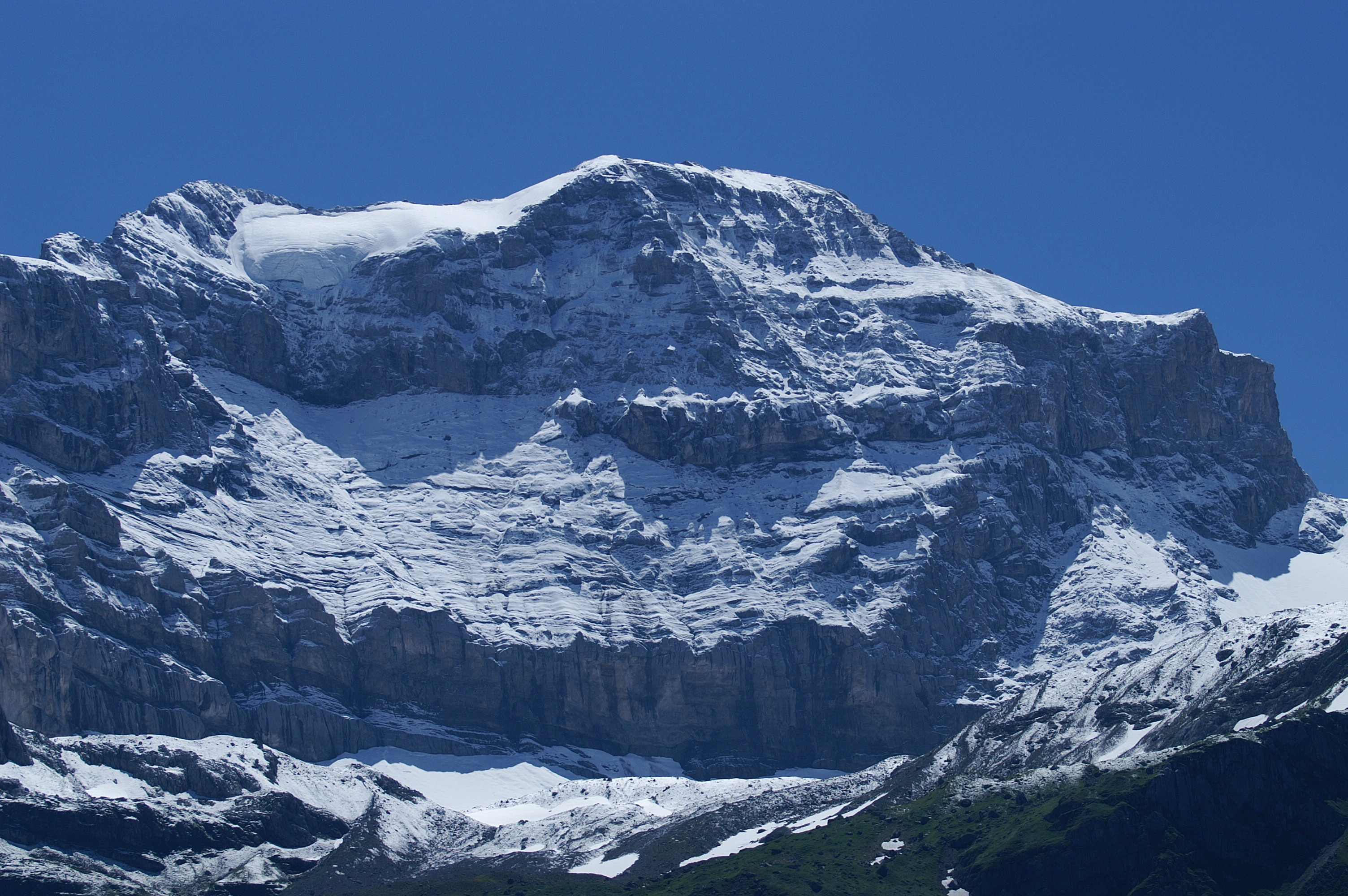 Klausen Pass (el. 1948 m.) is a high mountain pass in the Swiss Alps connecting the cantons of Uri and Glarus.